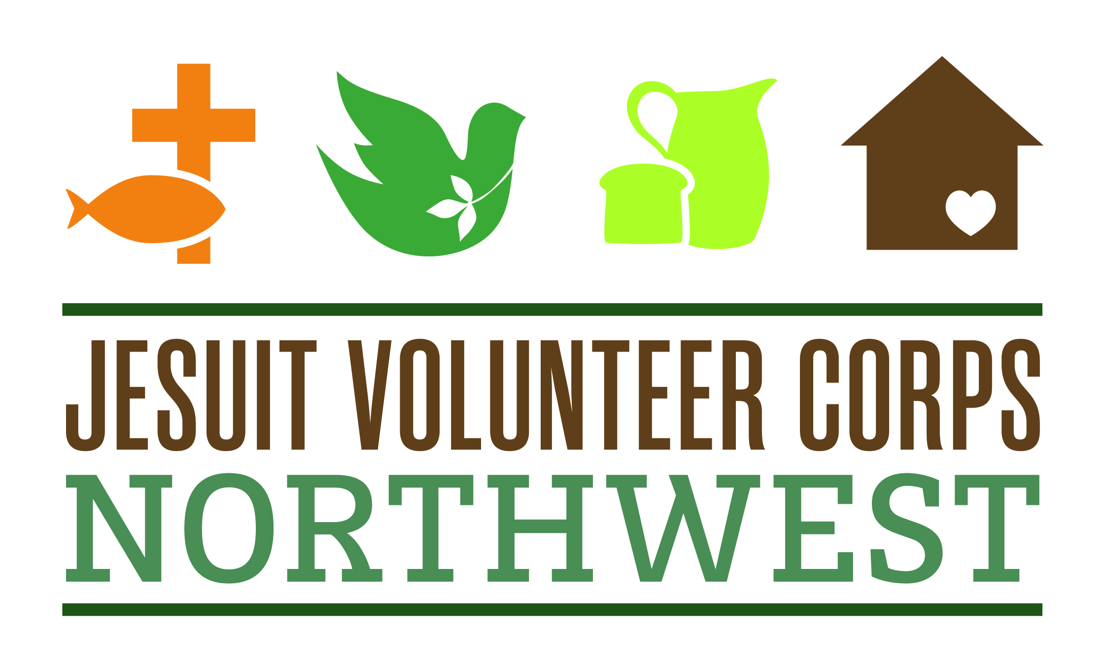 The Jesuit Volunteer Corps Northwest logo, with the name in brown and green, and four icons each representing one of the four core values.